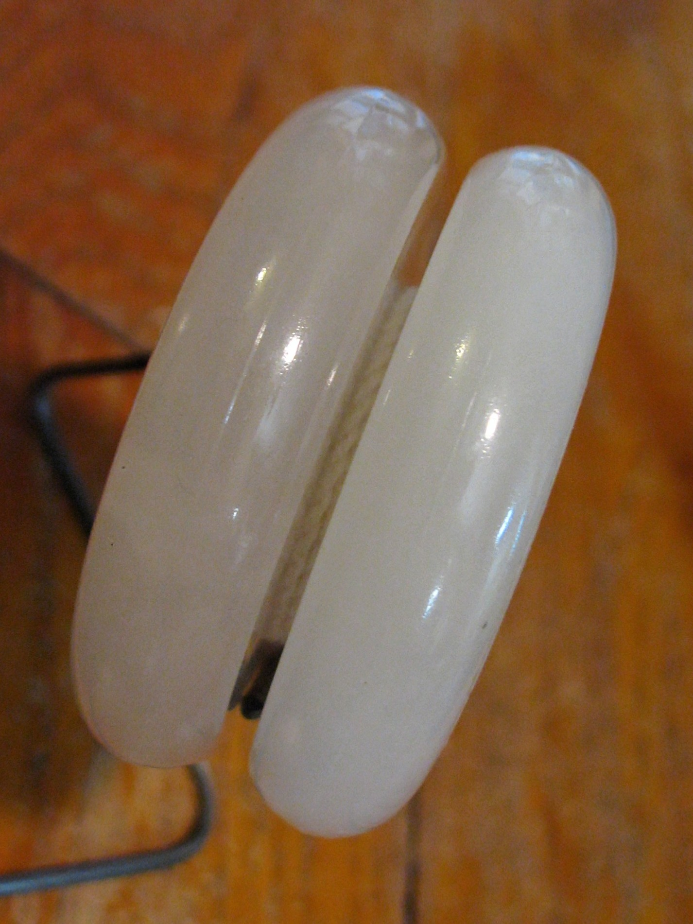 Profile of Terminator Technic Yo-Yo. Example of a "Modified" shape yo-yo.